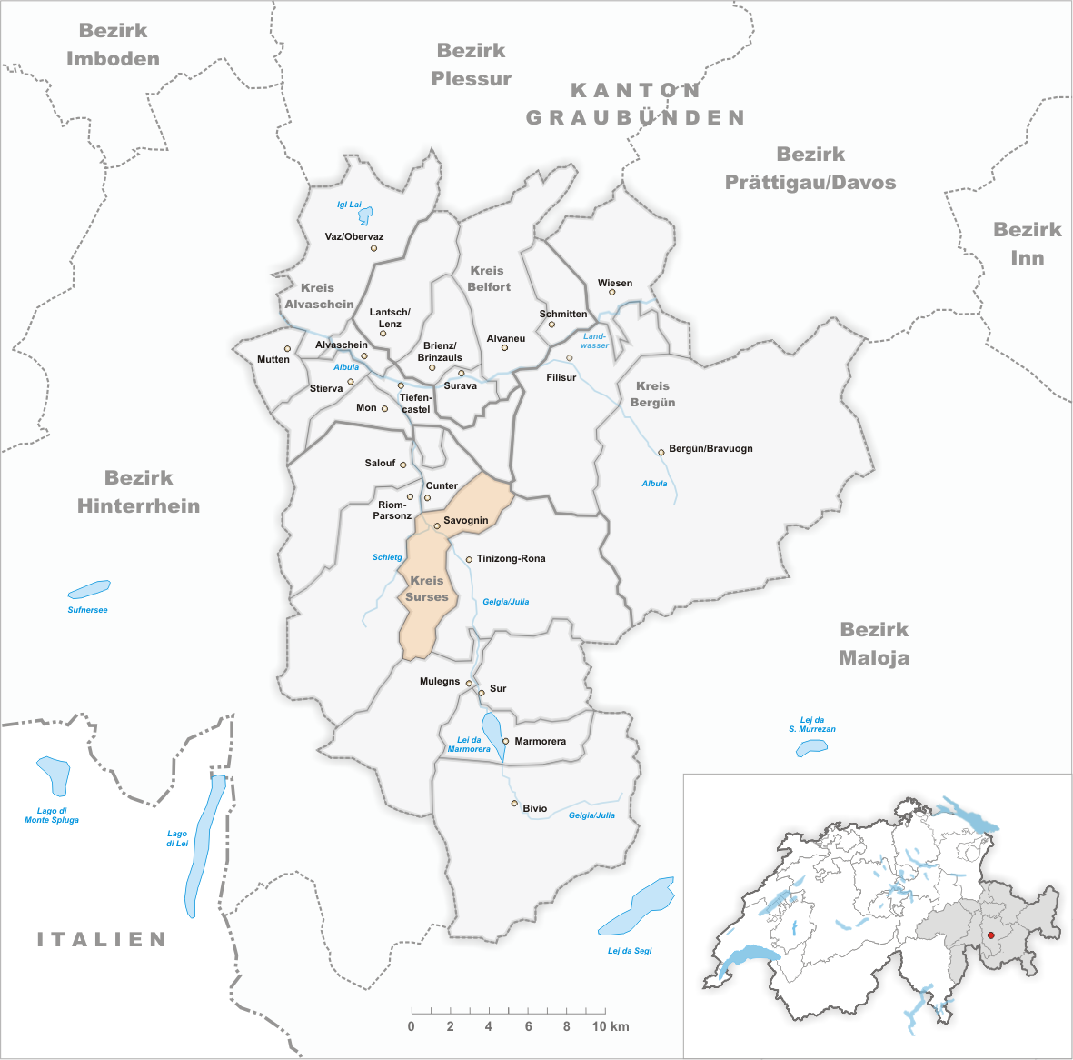 Municipality Savognin Rumantsch: Cumegn Savognin